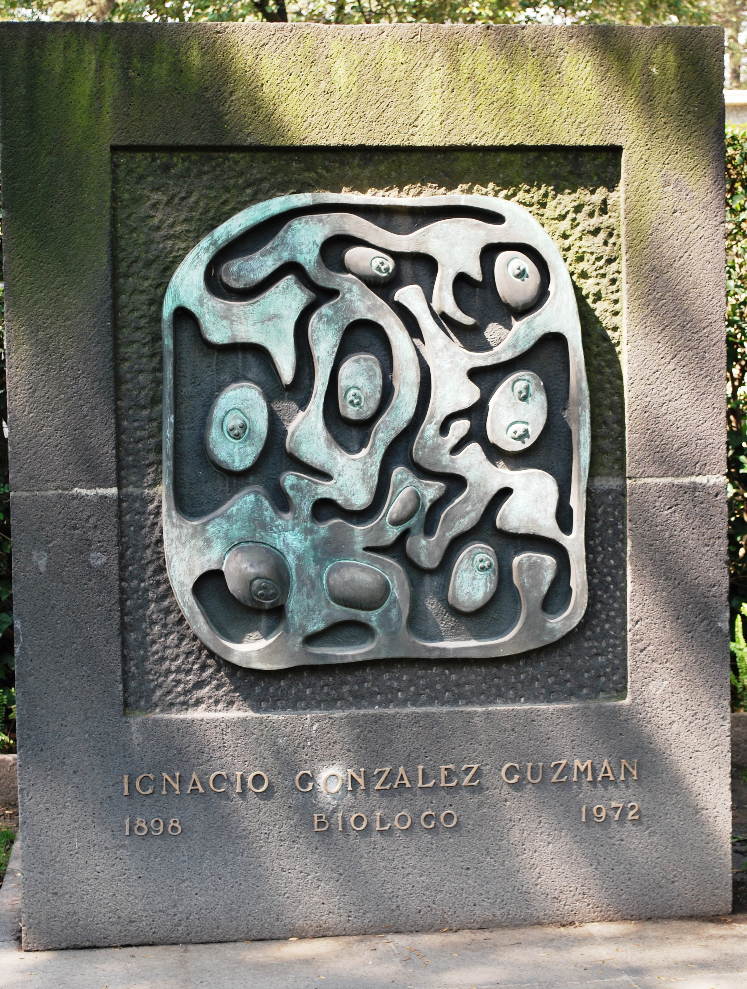 Tomb of Ignacio Gonzalez Guzman in the Panteon Civil de Dolores cemetery in Mexico City